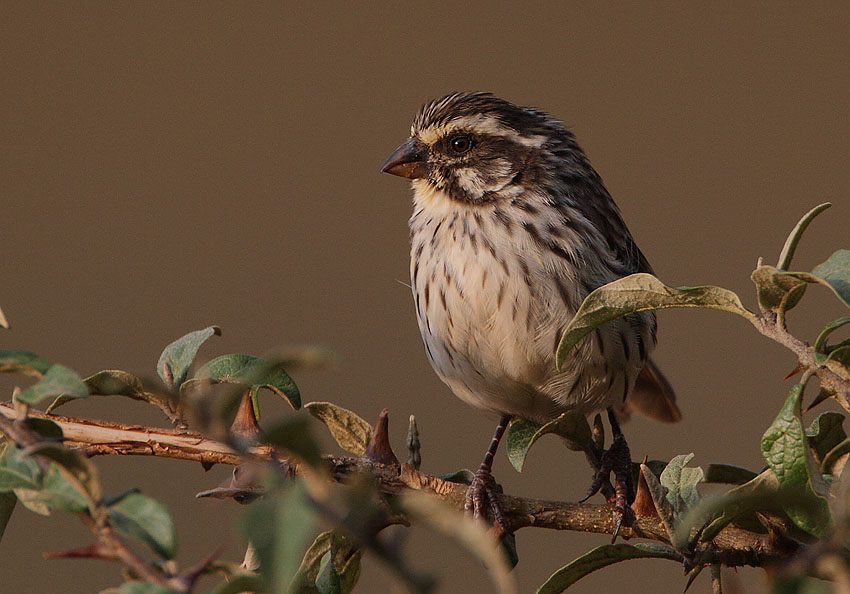 A Streaky Seedeater near Mountain Lodge, Mount Kenya, Kenya.